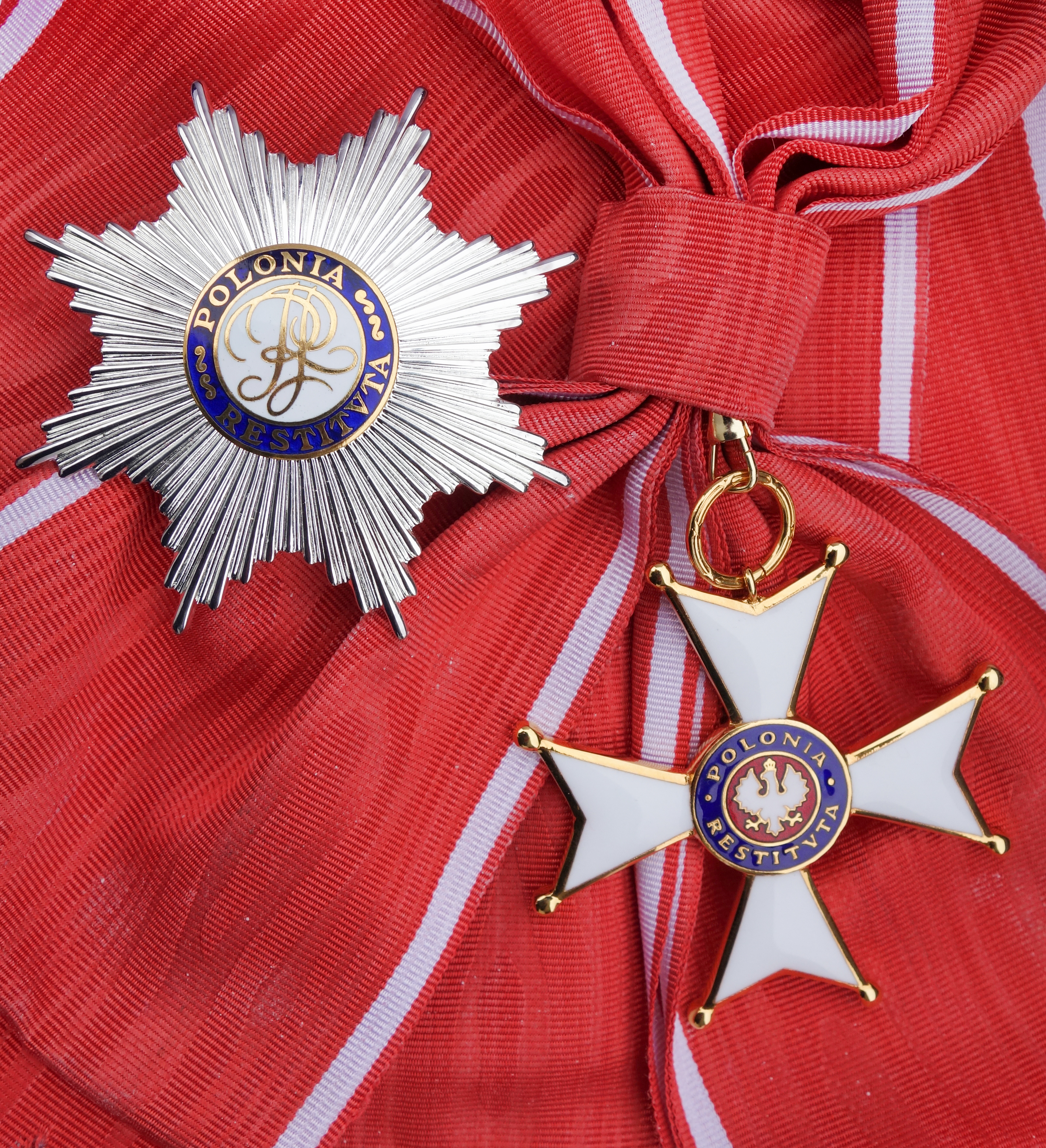 Order of Polonia Restituta - Grand Cross